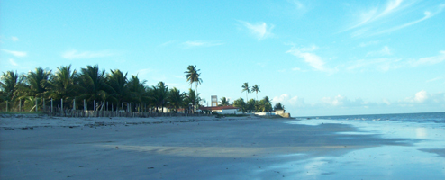 Pitimbue Beach